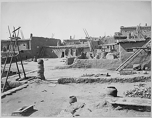 Photograph taken in the state of New Mexico. Native American Zuni terrace.